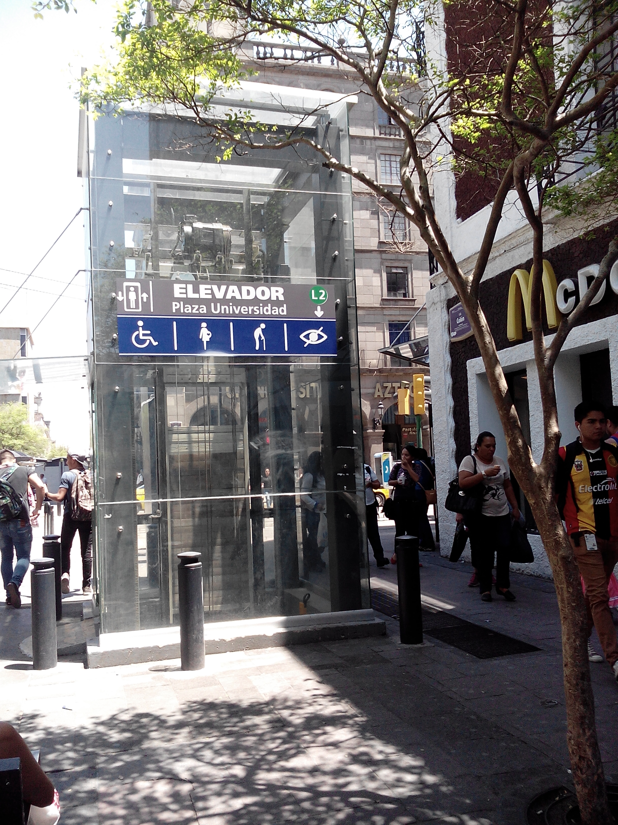 Elevator for disabled people at Guadalajara light rail system